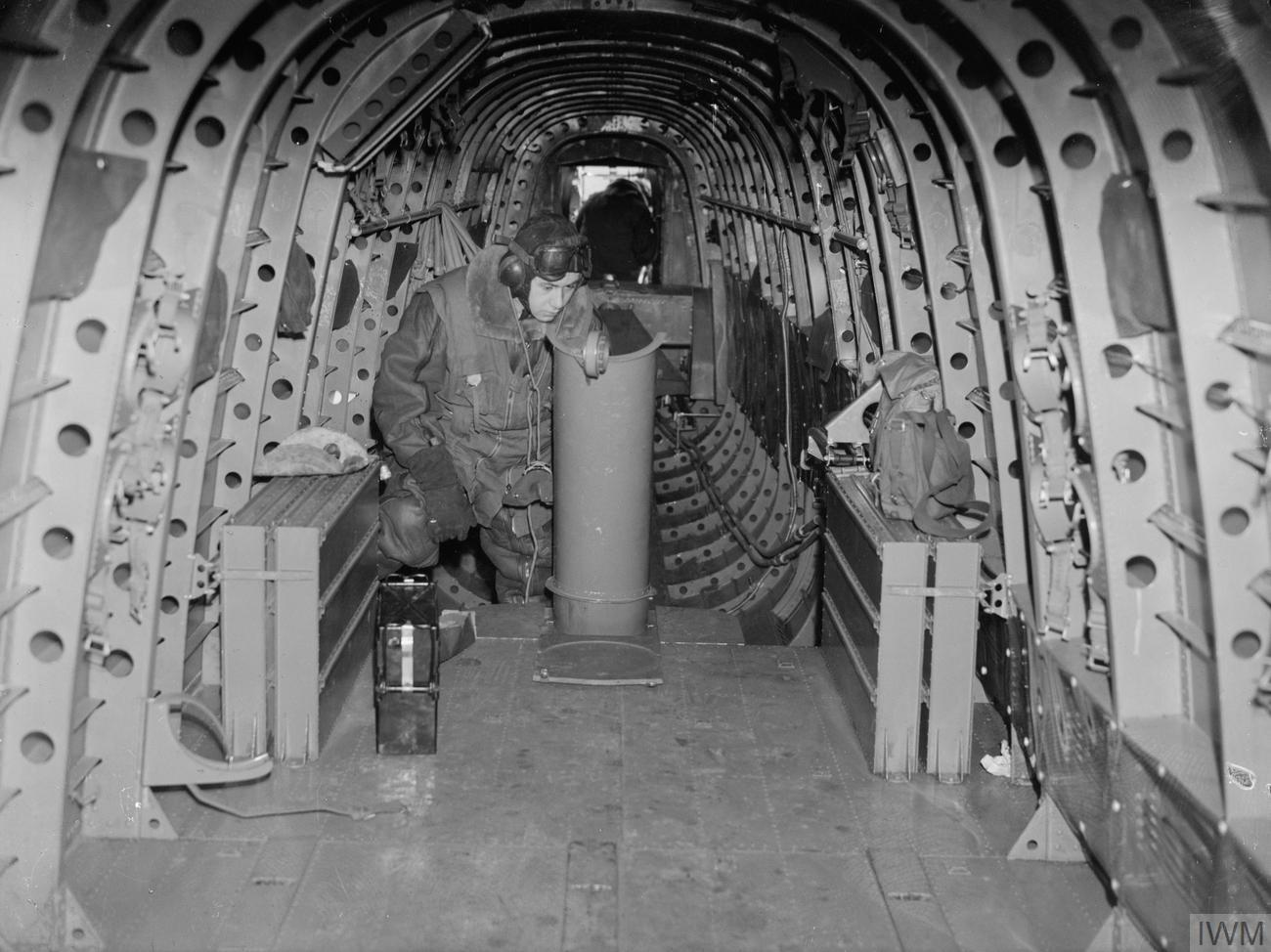 IWM caption : An interior view of Avro Manchester Mark I, L7288 'EM-H', of No 207 Squadron RAF at Waddington, Lincolnshire, looking aft towards the rear turret with a member of the crew posing by the flare chute.